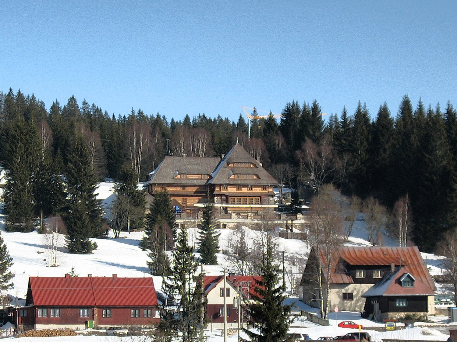 The village Modrava in the Šumava Mts., Czech Republic